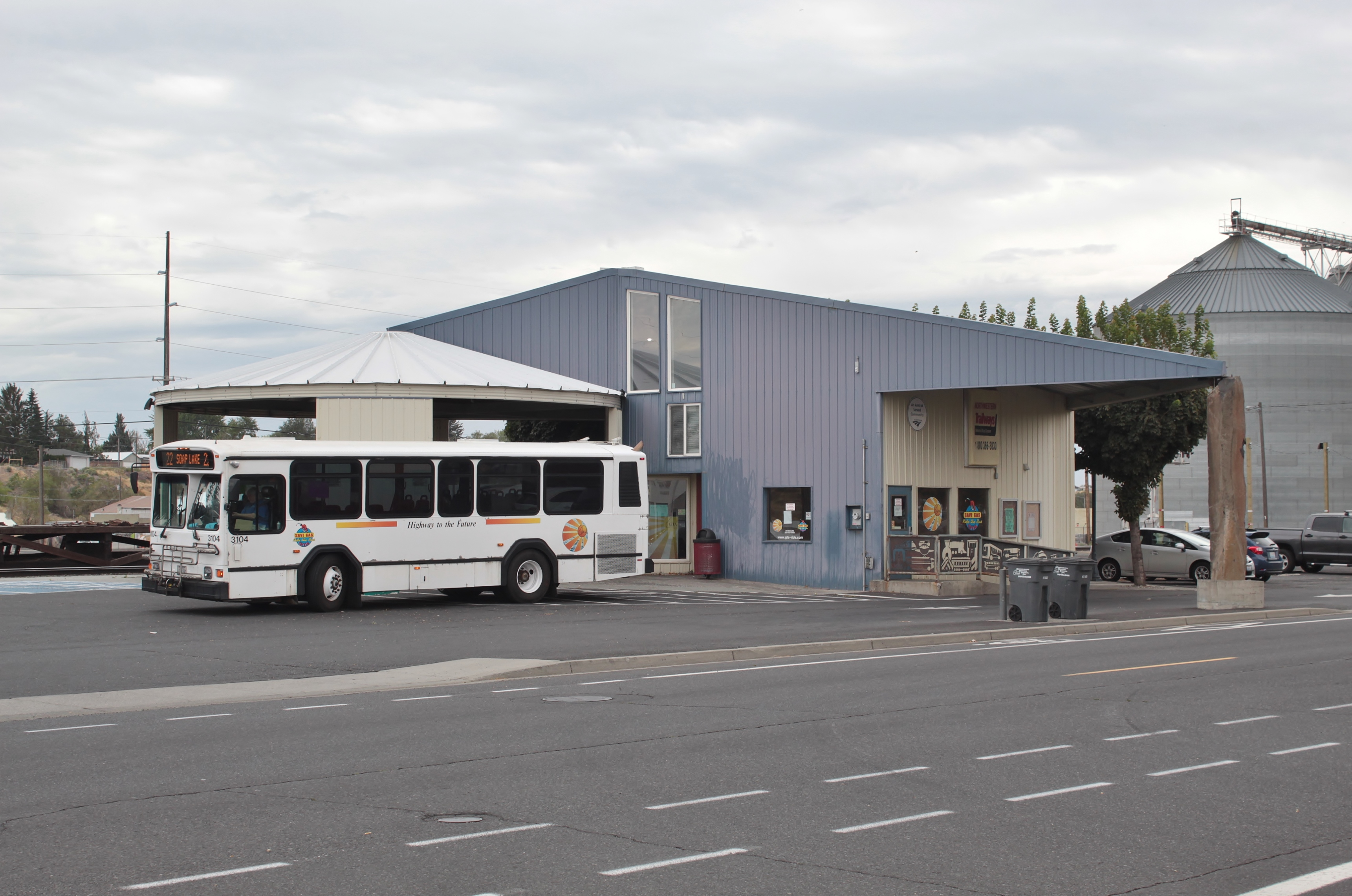 A Grant Transit Authority bus parked at Ephrata station, an Amtrak station in Ephrata, Washington.